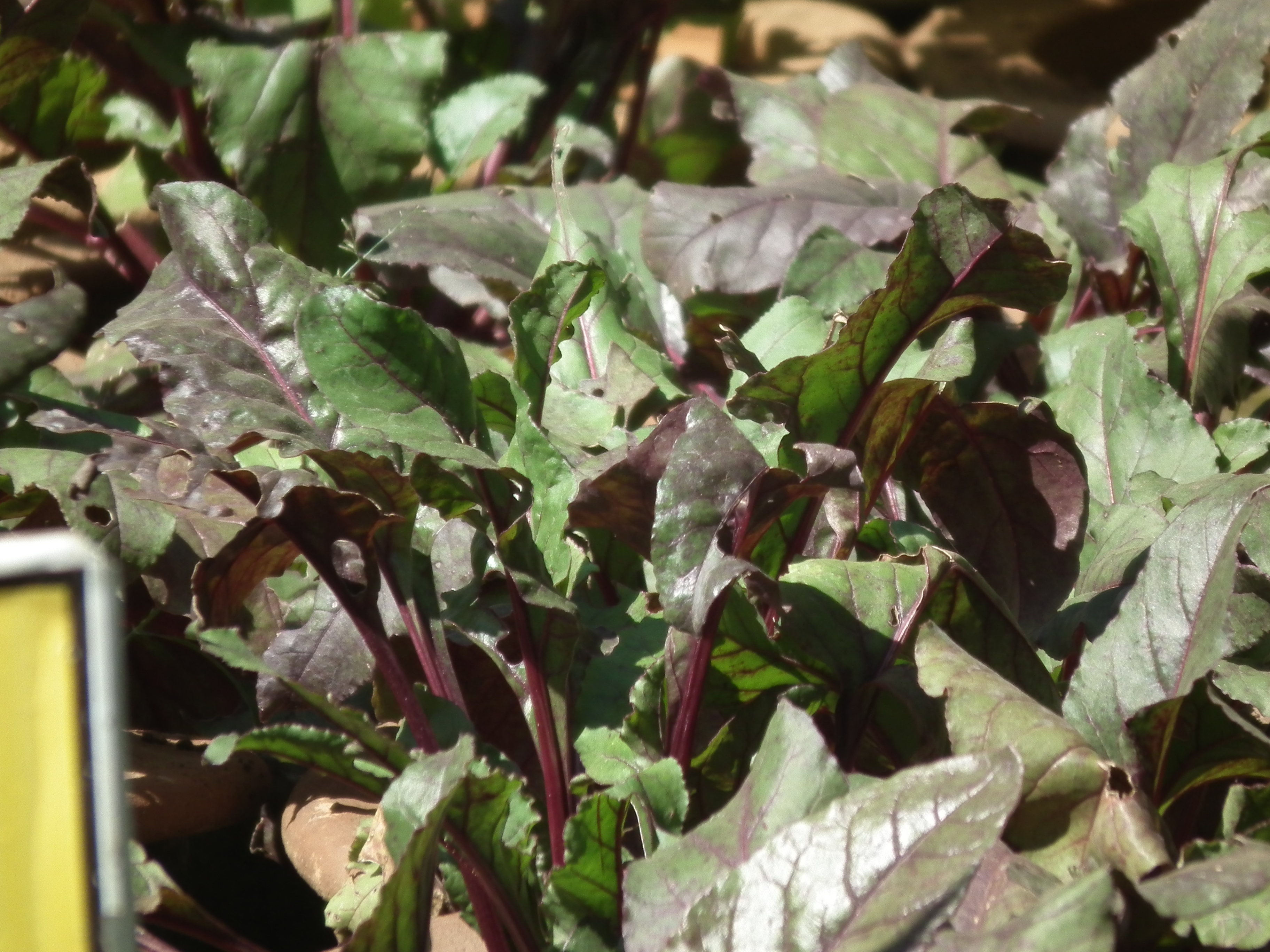 Beta vulgaris from Lalbagh during flower show, January 2012, Bangalore, India.